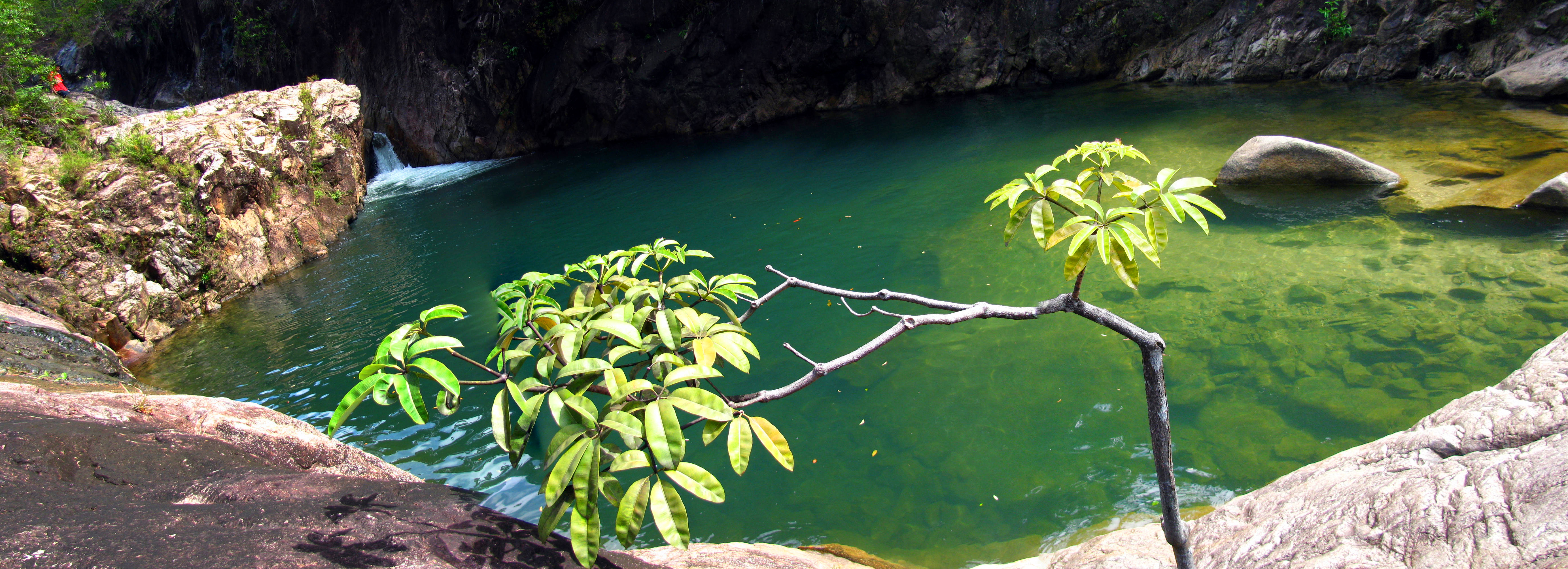 Panorama of Berkelah Falls, fifth tier.